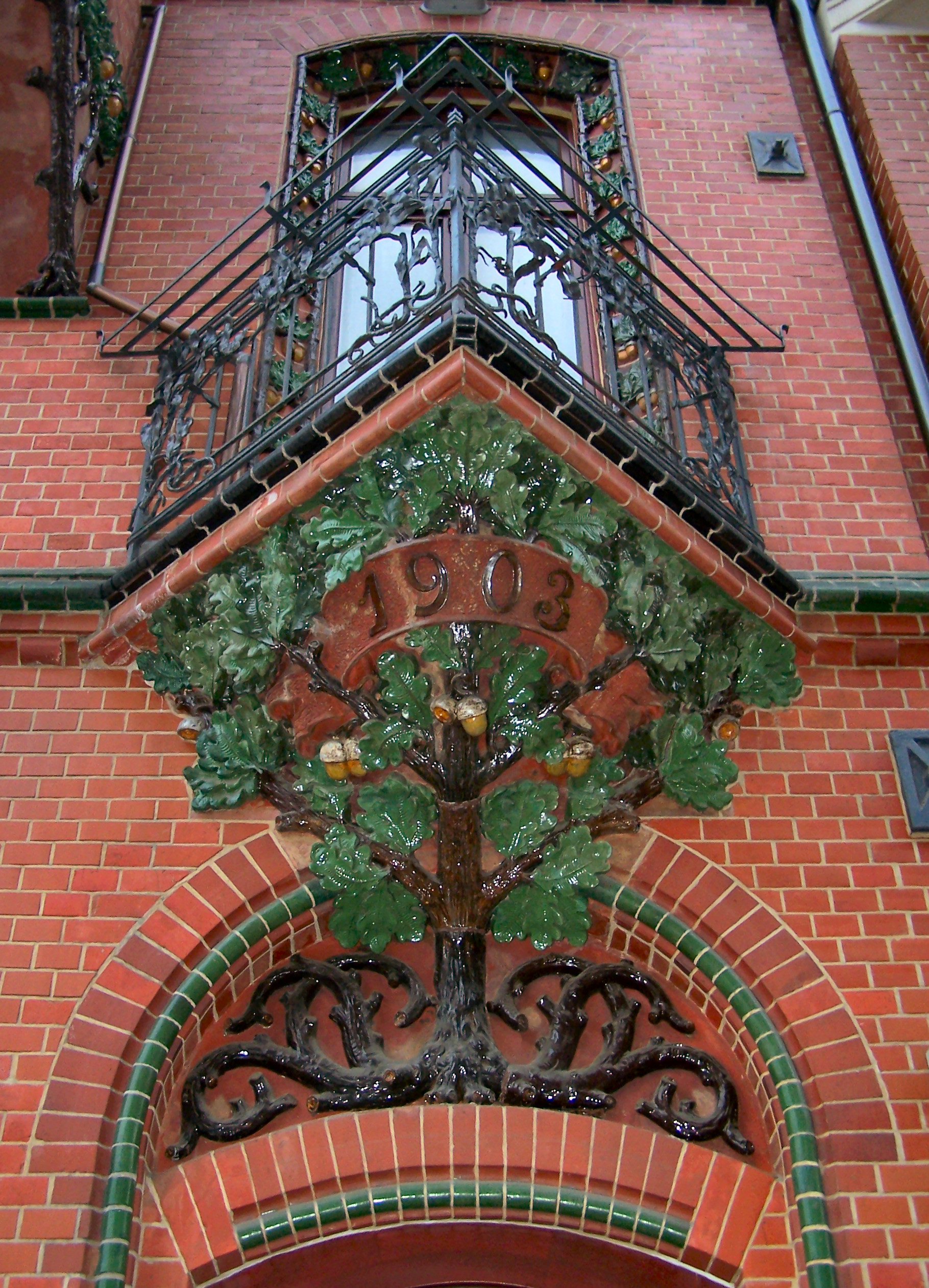 Corbel supporting balcony in Katowice (Poland).